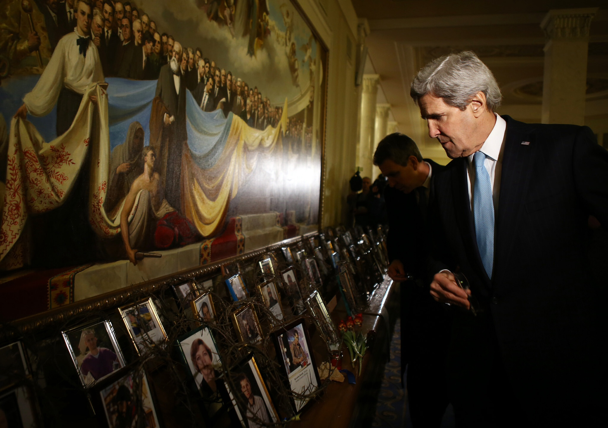 U.S. Secretary of State John Kerry looks at the photos of those killed at Maidan, at the Verkhovna Rada in Kyiv, Ukraine, on March 4, 2014. [State Department photo/ Public Domain] The photo owner has disabled commenting.